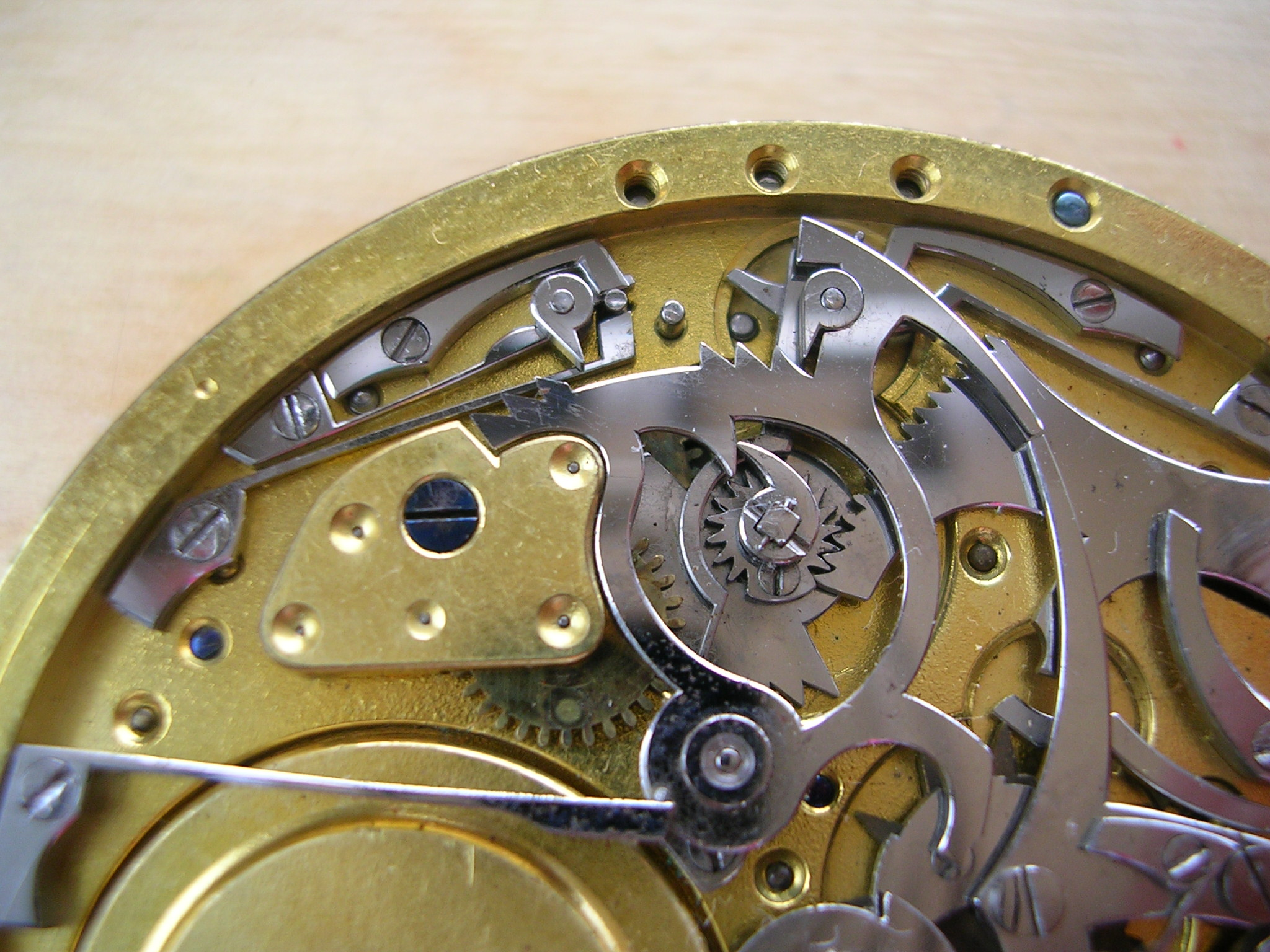 Closeup of a quarter repeater movement (dial side), showing the hammers and springs.